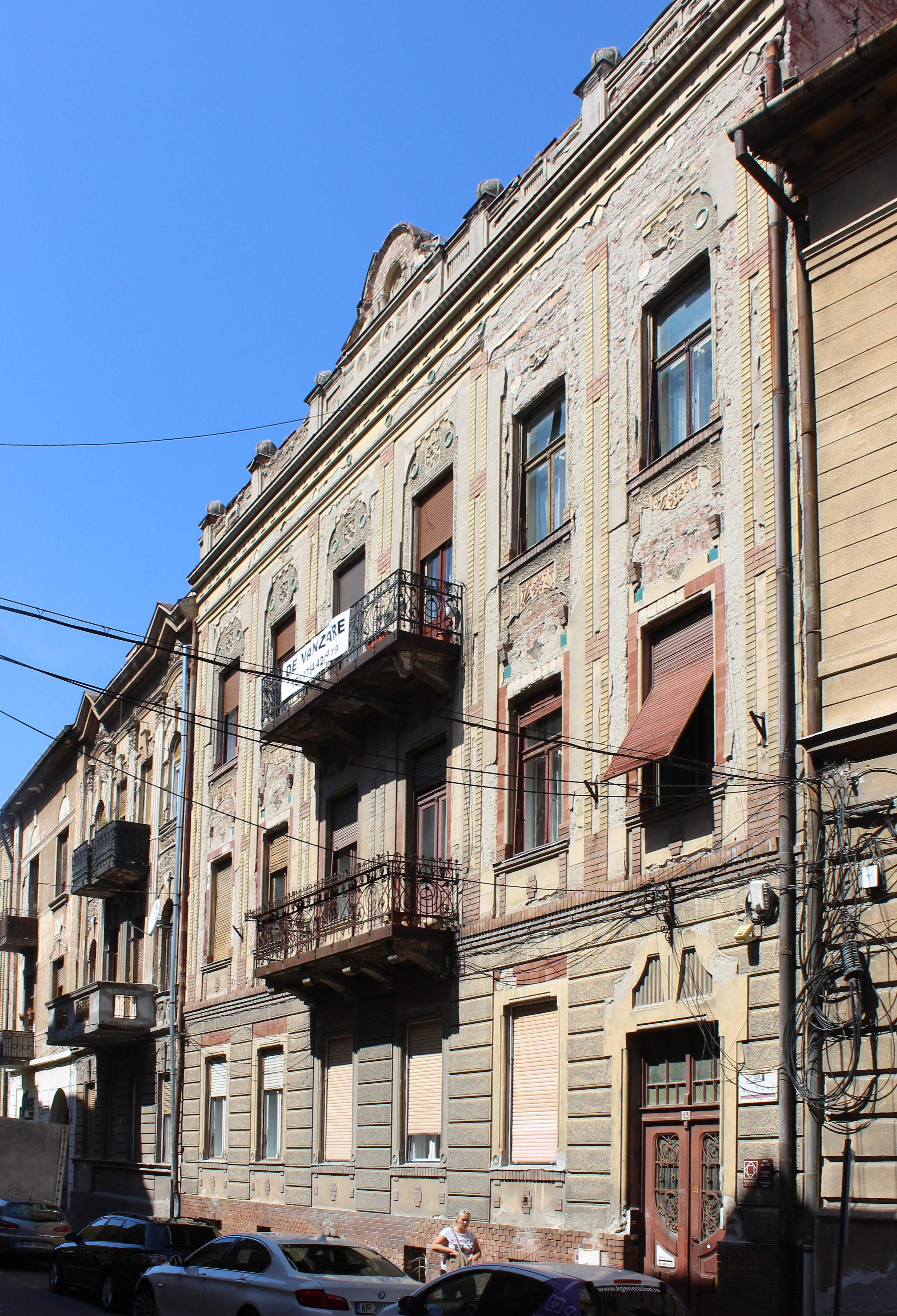 Houses, Unirii str, no 11 (left) and no 13 (right), Arad, Romania, built about 1900